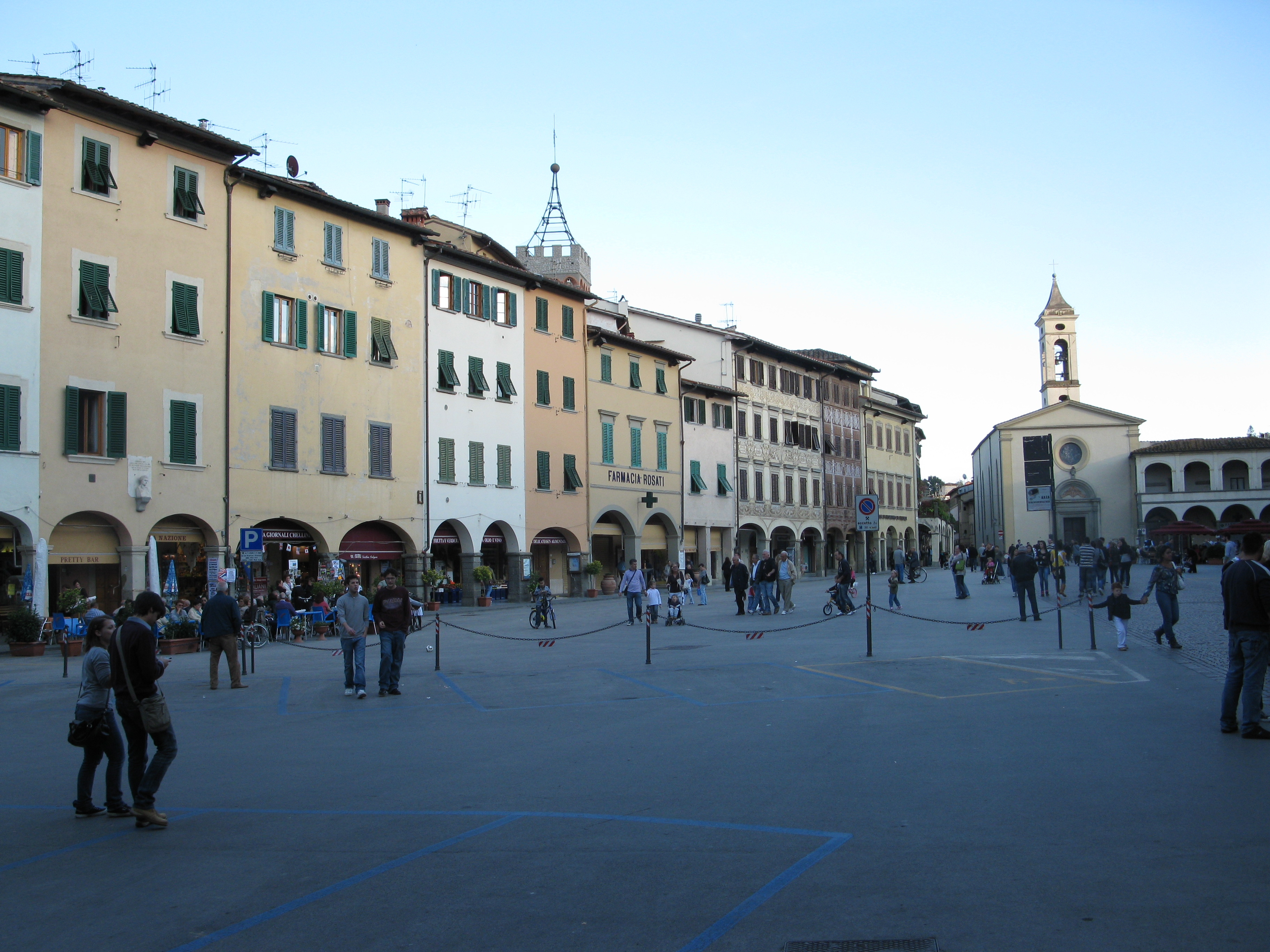 Figline Valdarno main square